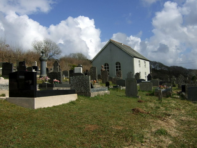 Llandilo Independent chapel The original chapel was built 1714, modified, altered or rebuilt 1786, 1845, 1882 and 1931. Still in active use with the newer burials in the foreground behind the chapel in this view from the east.